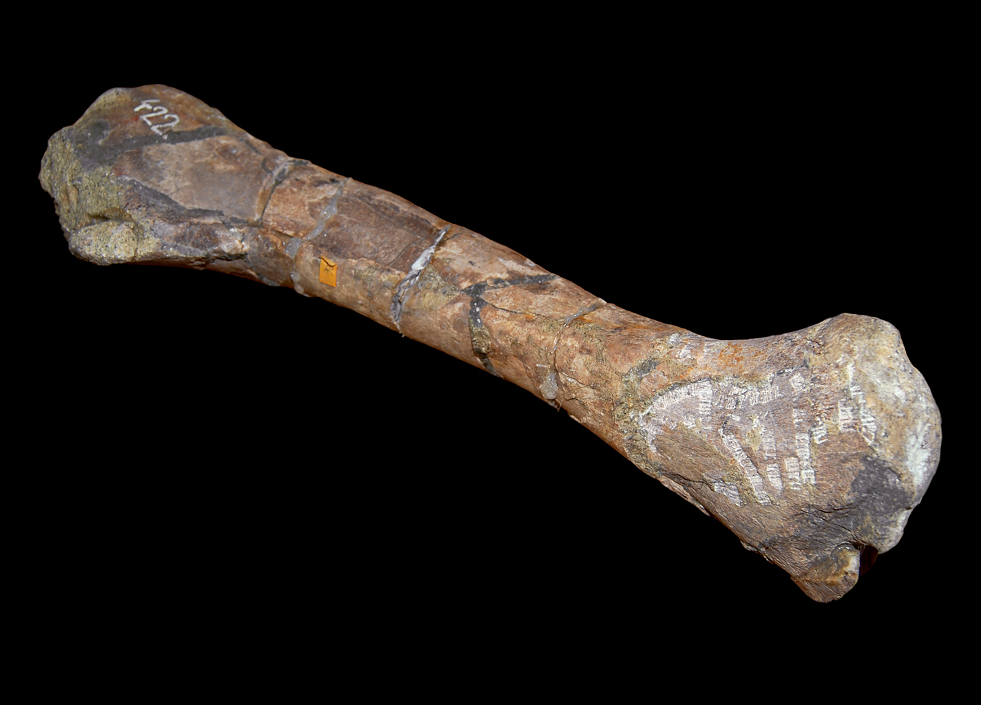 Femur of Telmatosaurus, Deva Natural History Museum.